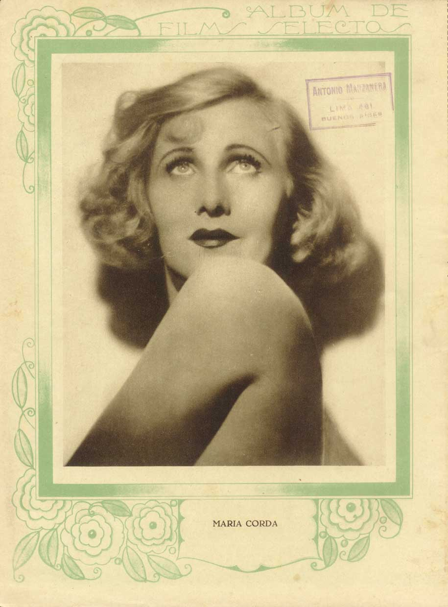 Publicity photo of Maria Corda for Argentinean Magazine